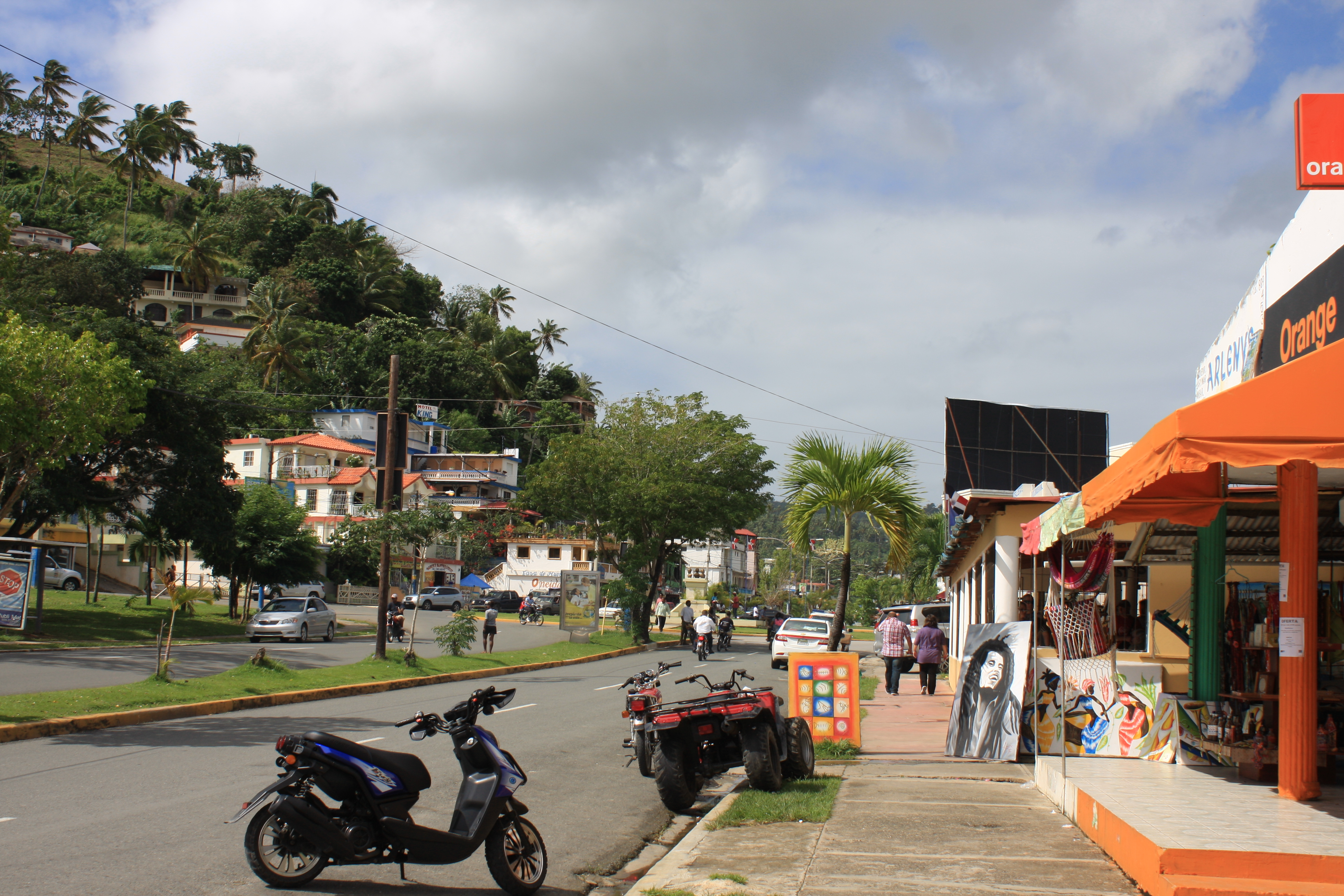 Samana, Dominican Republic